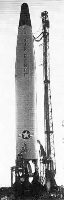 Thor-Burner rocket sitting on its launch pad